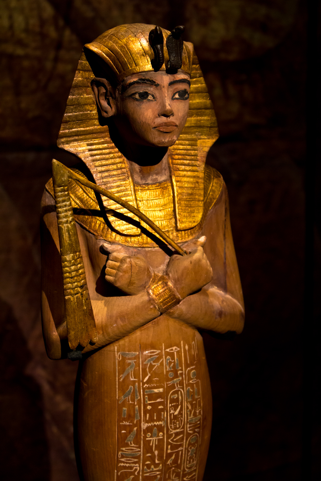 This is a partly gilded wooden ushabti found in the KV62 tomb of king Tutankhamun, from the 18th Dynasty of Egypt's New Kingdom who reigned in the late 14th century BCE. It was designed to serve Tutankhamun in his afterlife. The ushabti today forms part of the permanent collection of the Cairo Museum of Egypt. This photo was taken at the King Tut exhibition at the Pacific Science Center in Seattle, Washington State, USA.